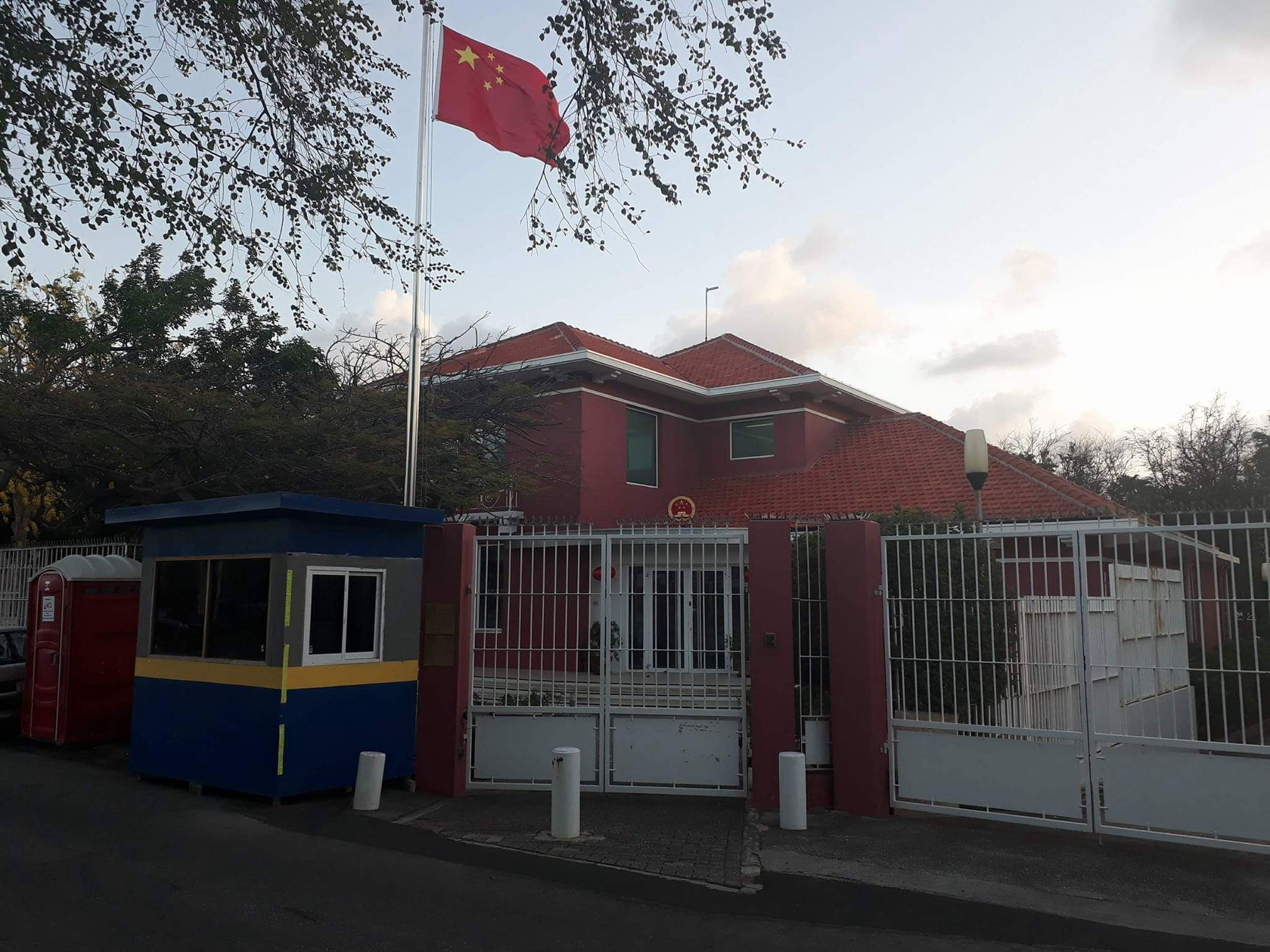 The building of the C.-G. of the People's Republic of China in Willemstad, Curaçao.